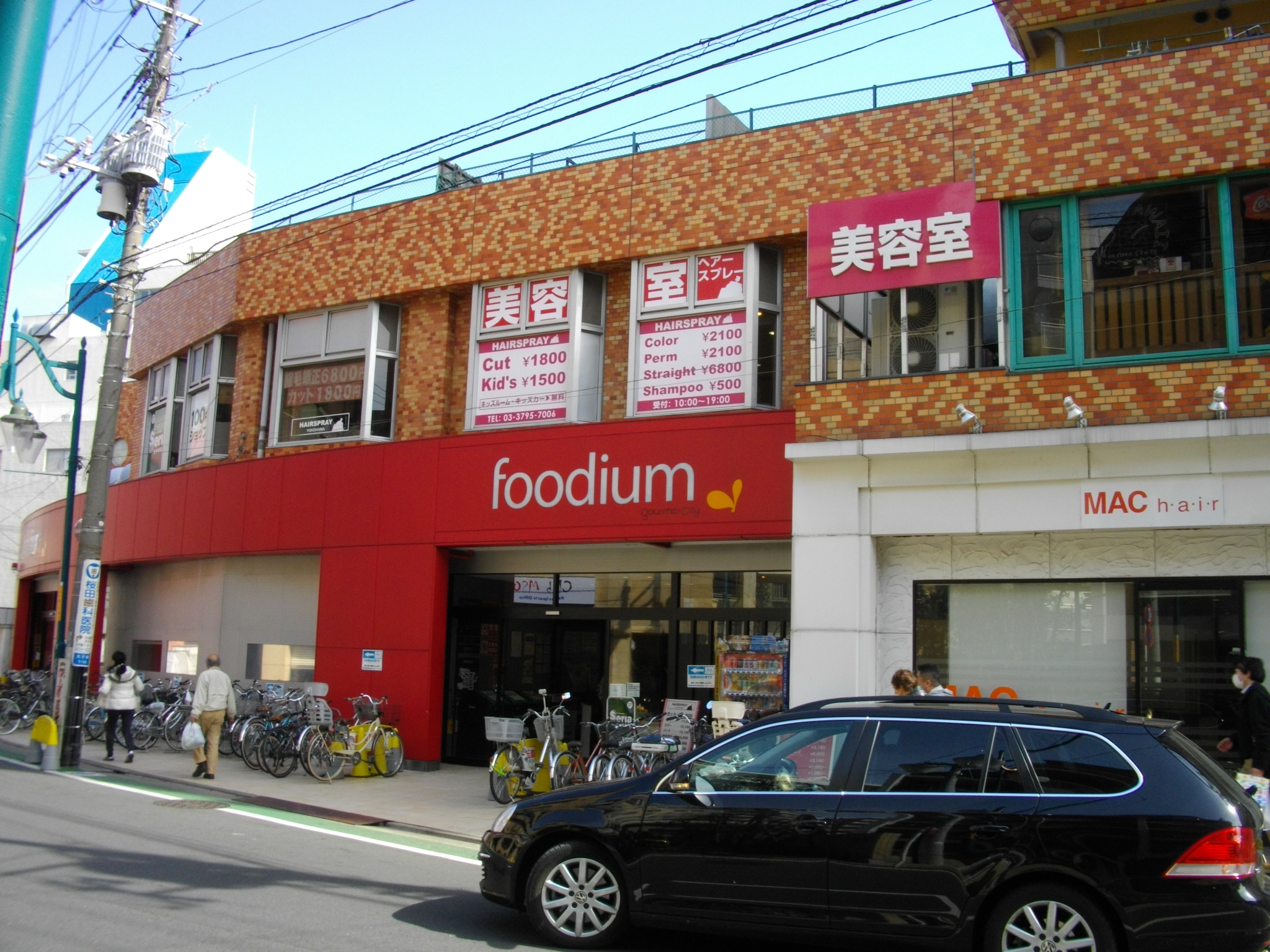 foodium Sangenjaya